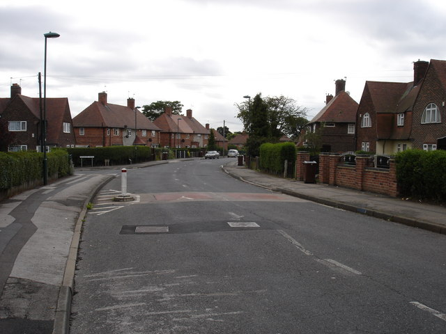 Minver Crescent, Aspley Typical of the housing in this area of Aspley.